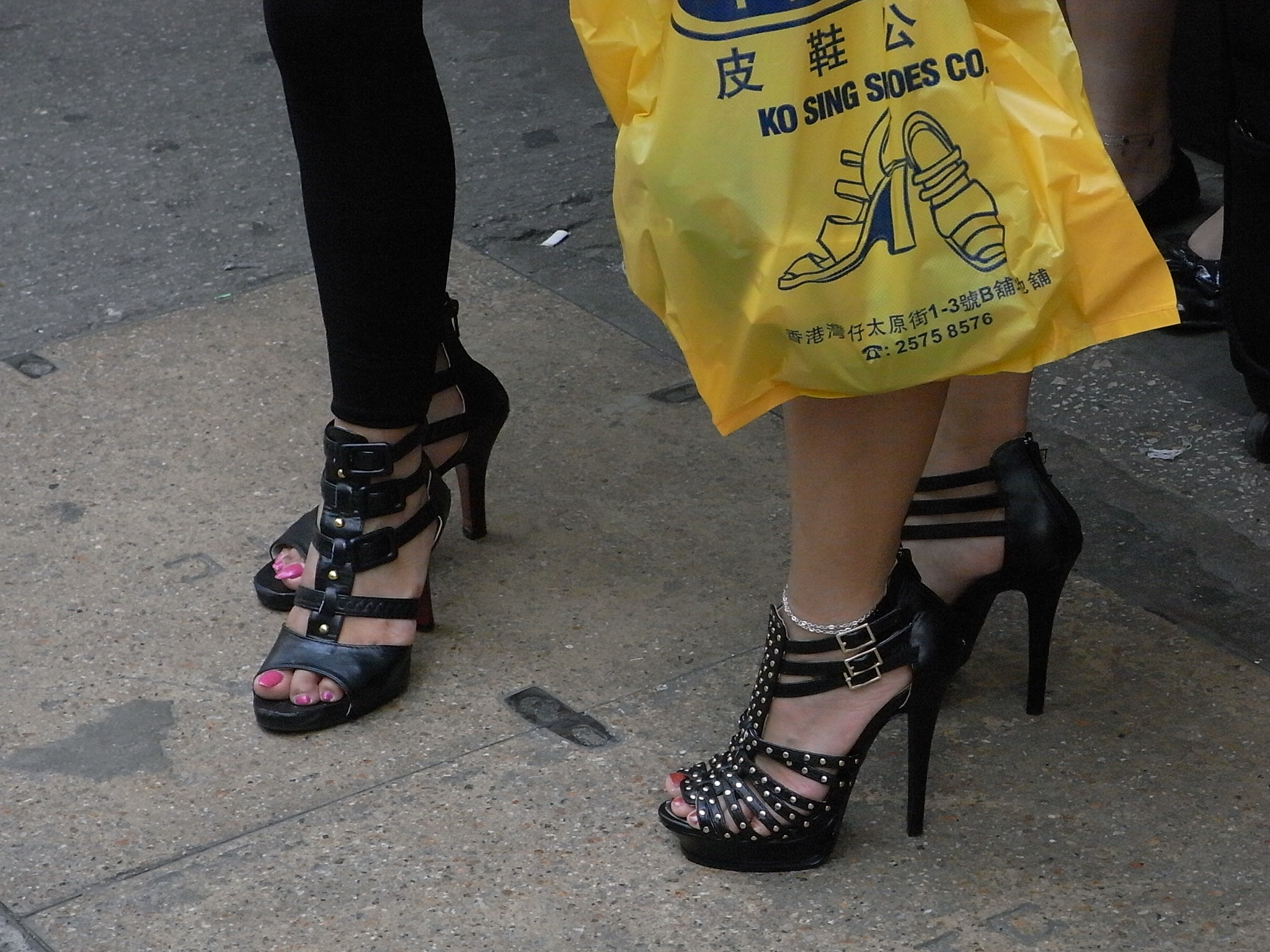 灣仔 太原街 (香港) 鞋店 高跟鞋